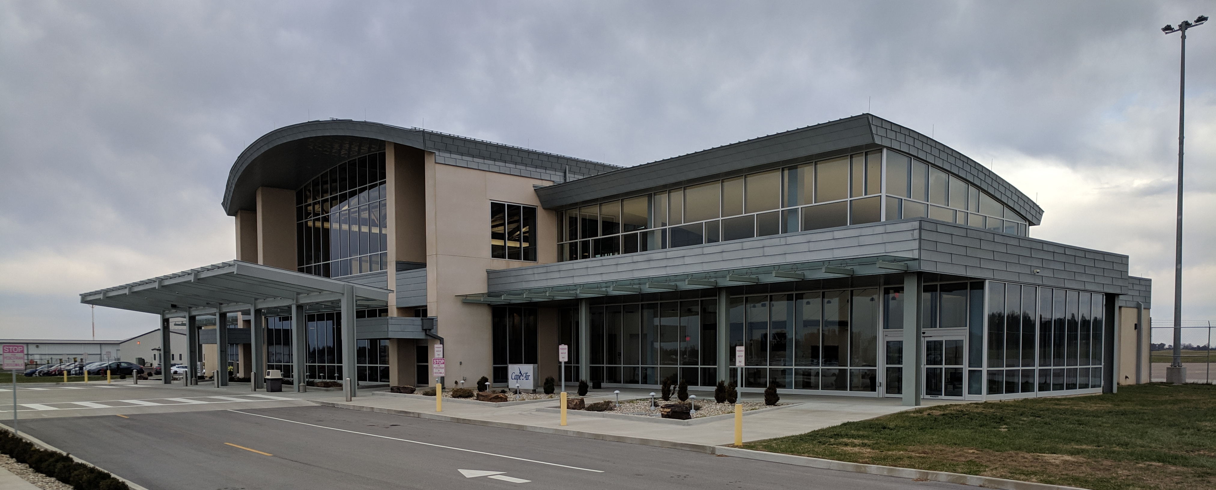 The terminal building at Veterans Airport of Southern Illinois, seen from the parking lot out front.